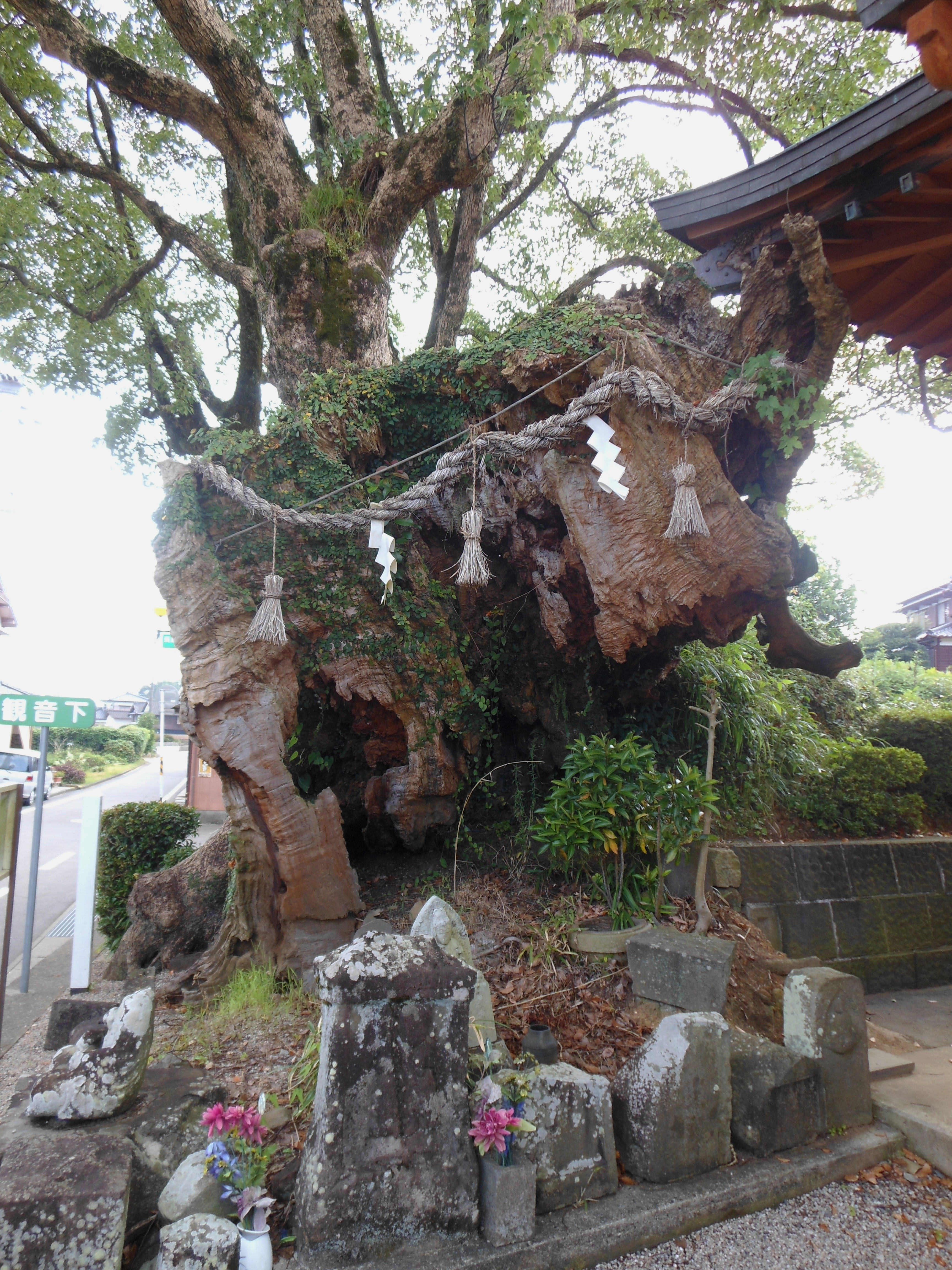 小田宿の馬頭観音跡の楠樹、佐賀県江北町。天平9年(737年)行基作と伝えられる観音像が幹に彫られていたが、嘉永4年(1851年)の火災が原因で腐朽が早まり失われた。現在は2代目・3代目の楠樹。